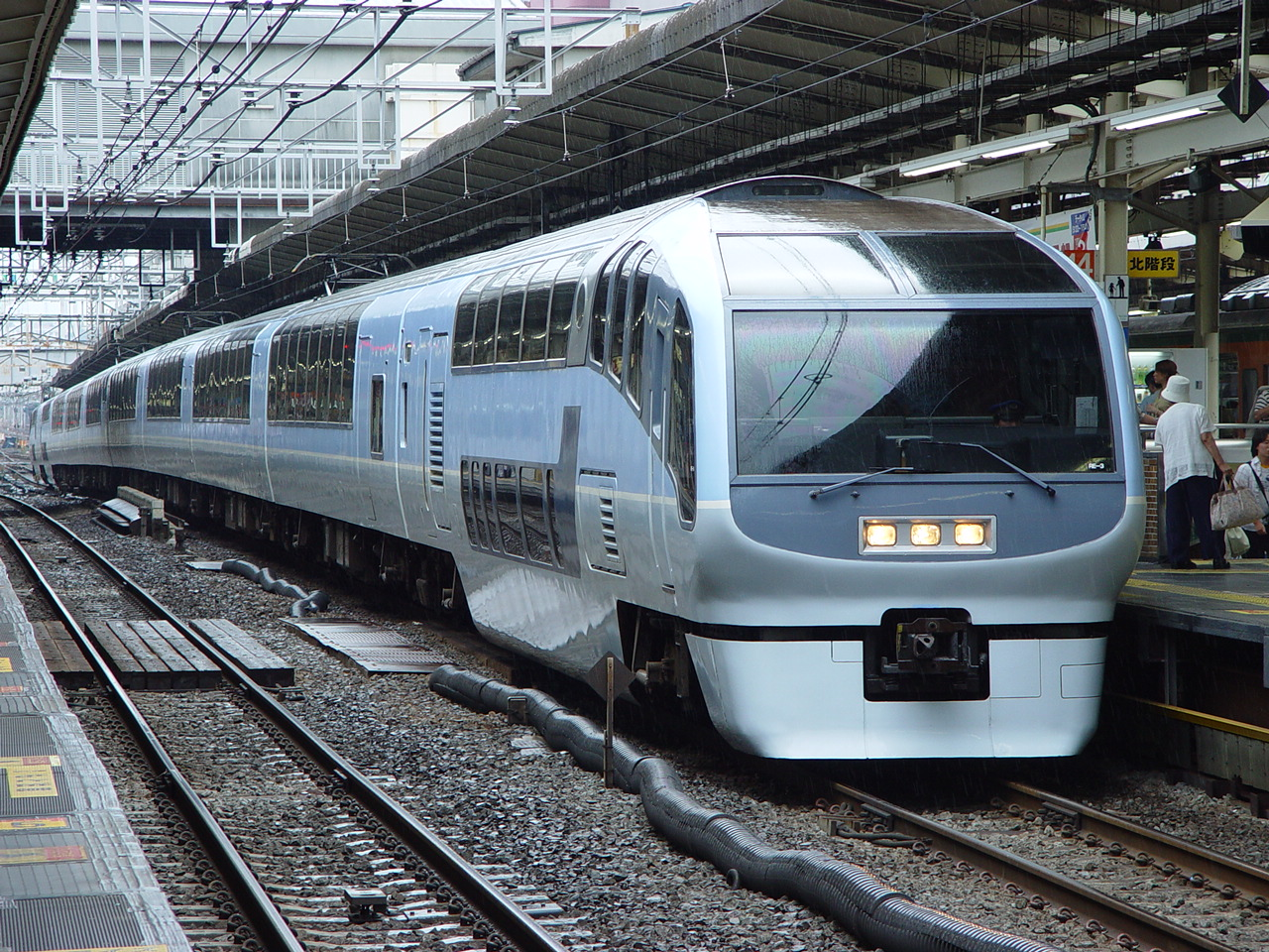 JR East 251 series EMU set RE3 at Yokohama Station on an up Super View Odoriko limited express service